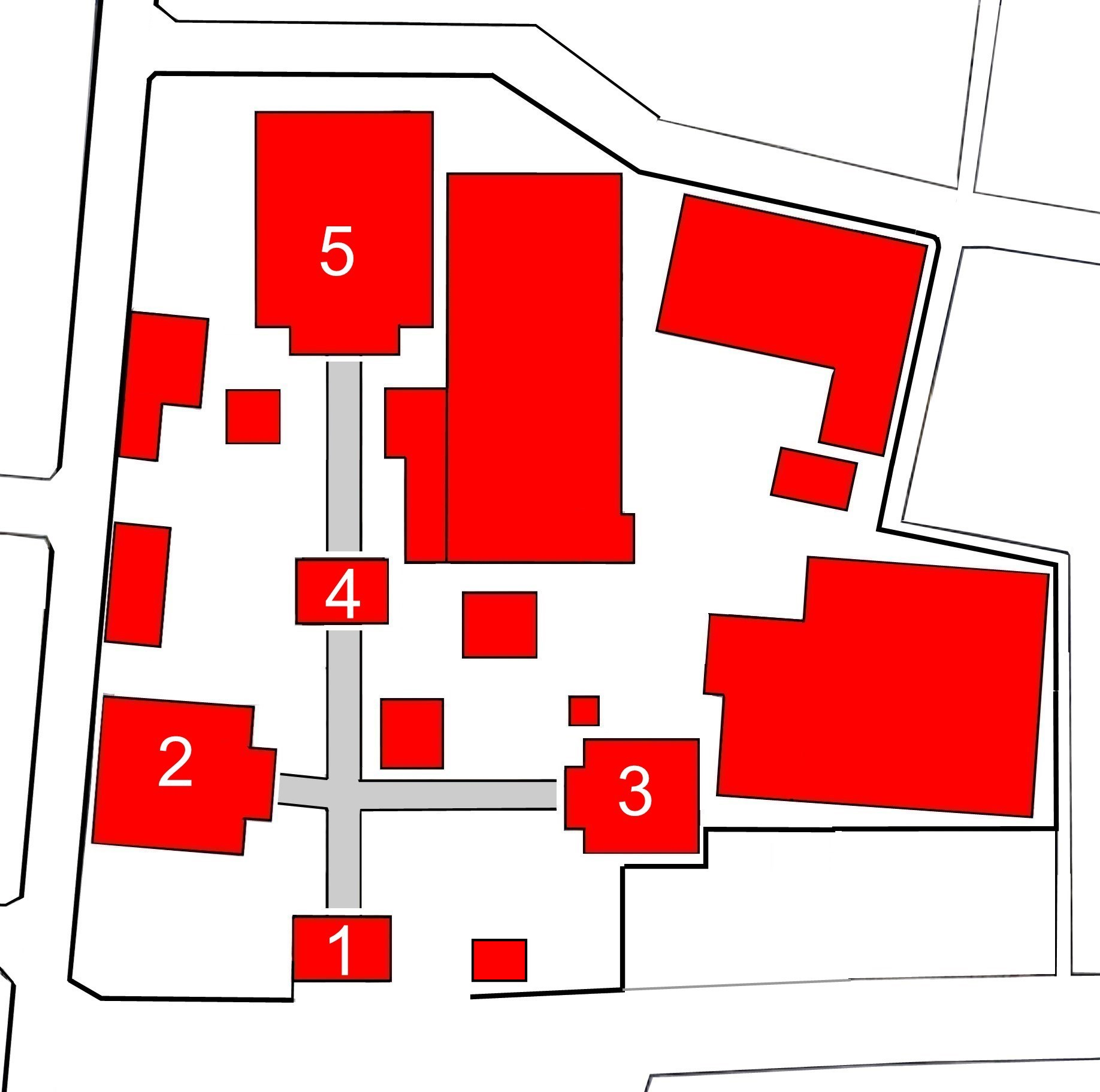 Layout of Emmyô-ji , Imabari, Japan